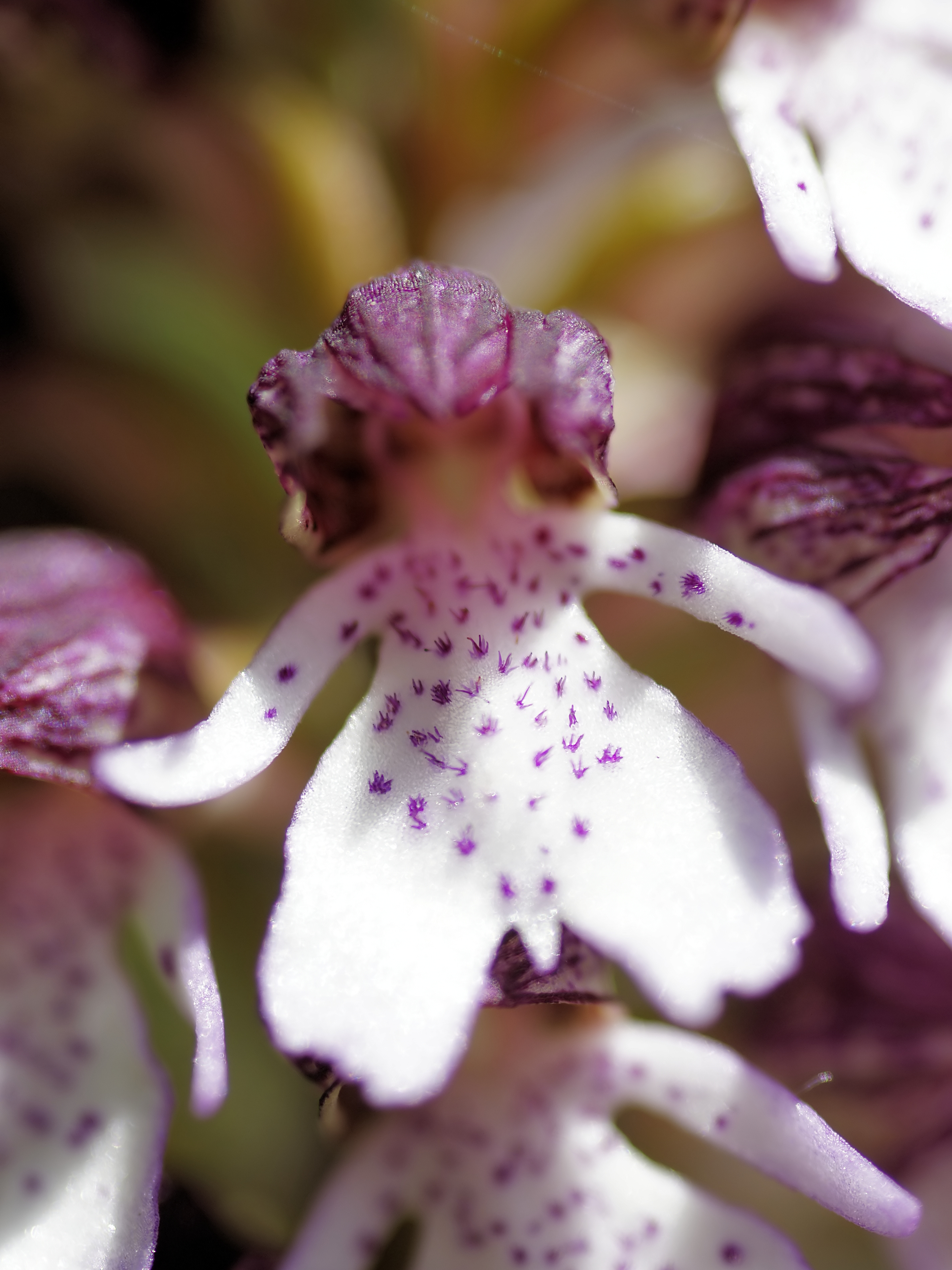 Lady Orchid at Riez de Boffles, Noeux-lès-Auxi, Pas-de-Calais, France.